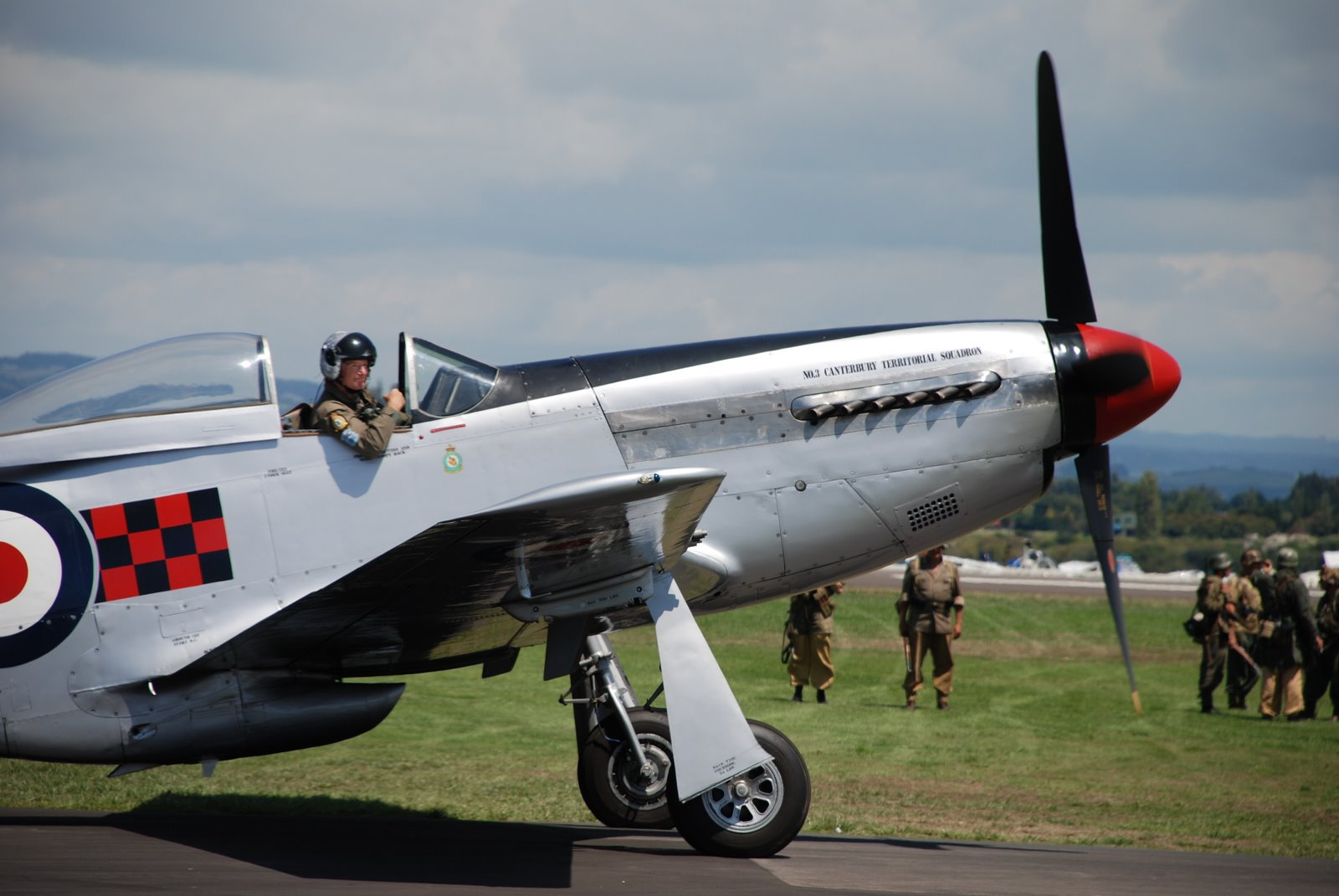 Photographer's comment "You have to love the Mustang, sheer beauty and power."